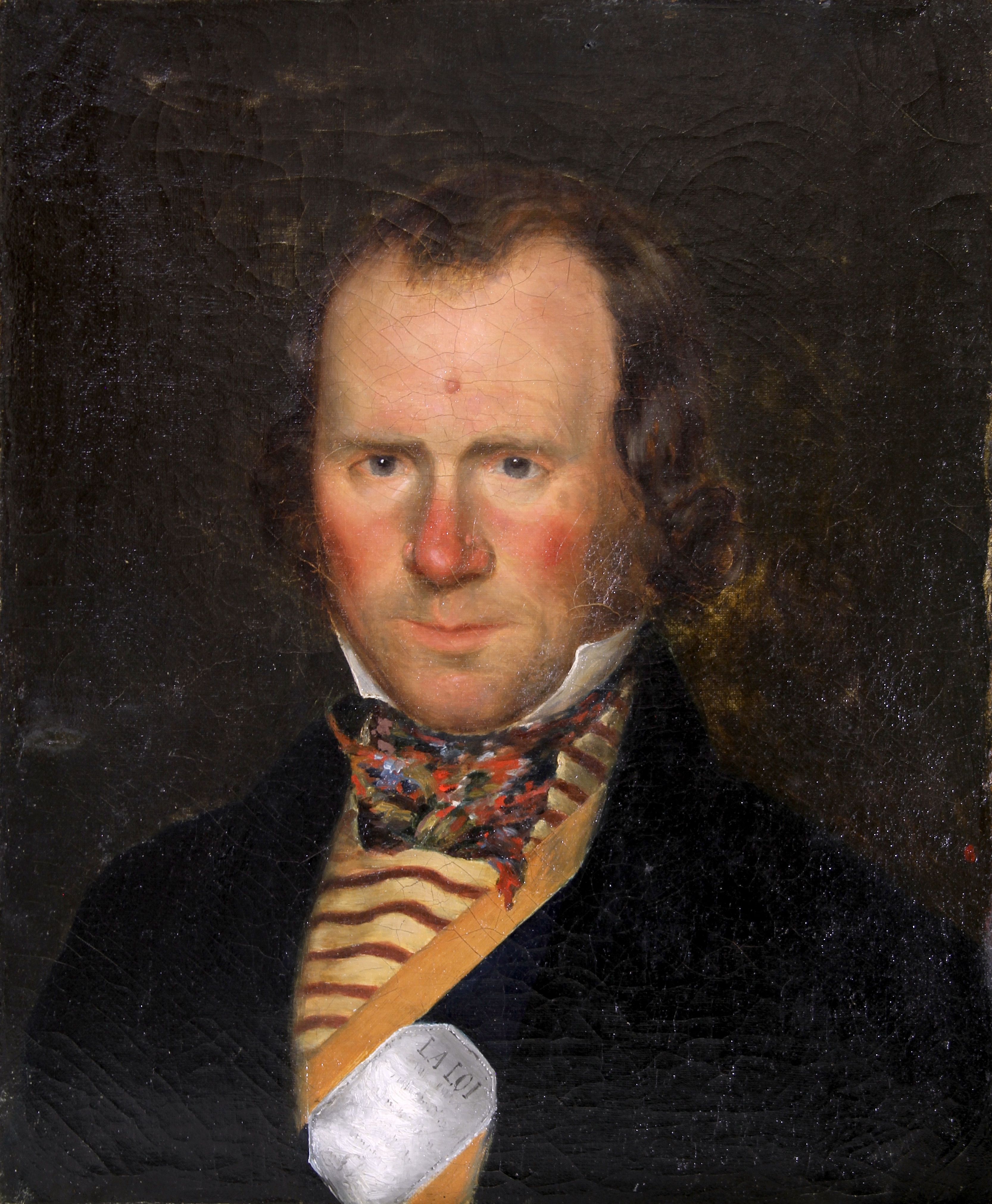 Life portrait of Richard Cobden painted by Ary Scheffer. Wearing an Ambassodors badge that reads "La Loi", The Law. Based on the title of Frédéric Bastiat's book inspired by Richard Cobden.